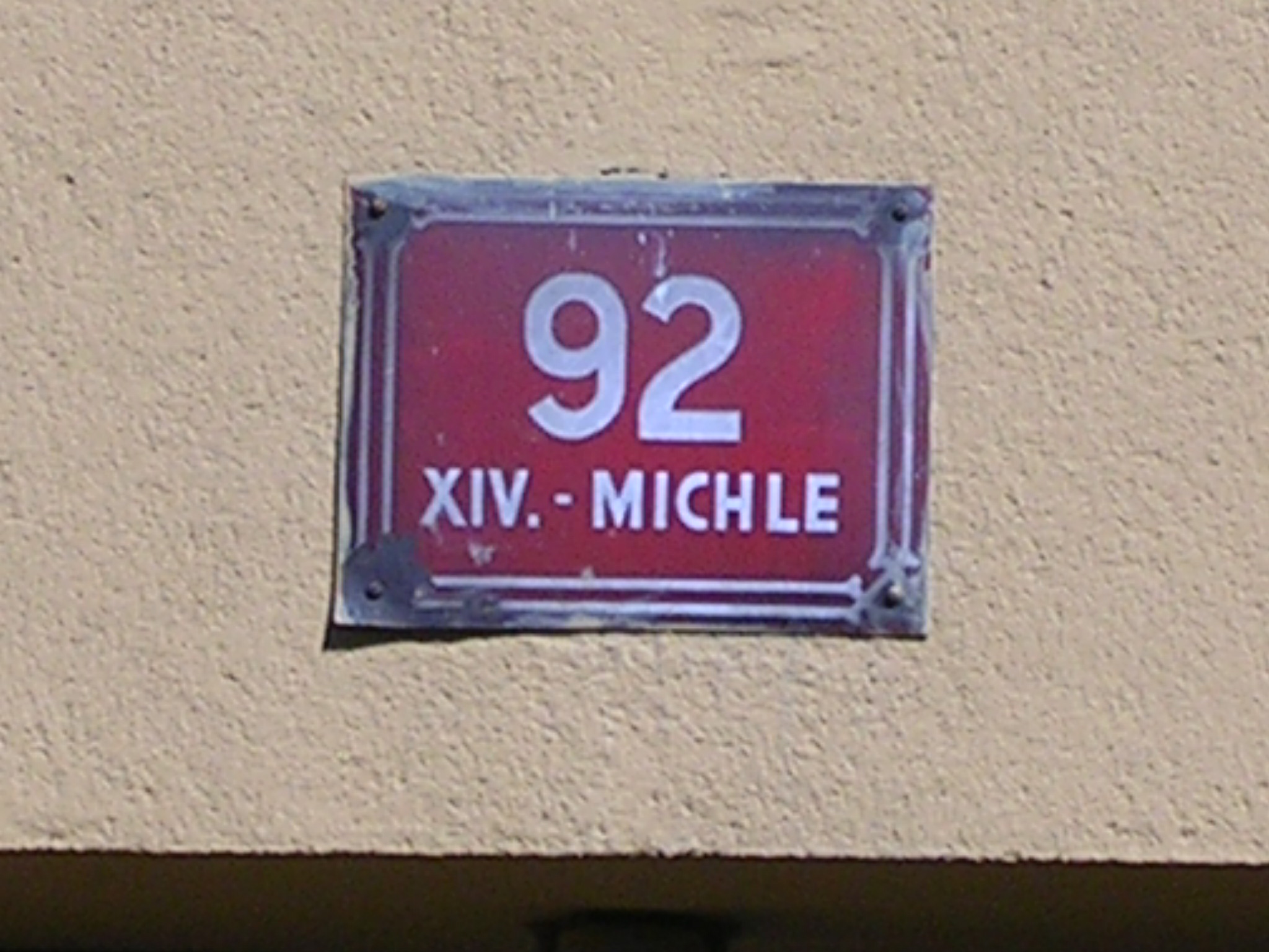 Michle, Prague, the Czech Republic.